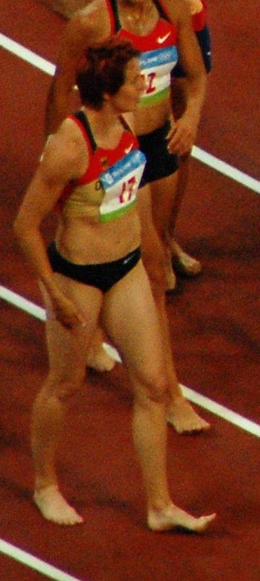 heptathlon Olympics 2008